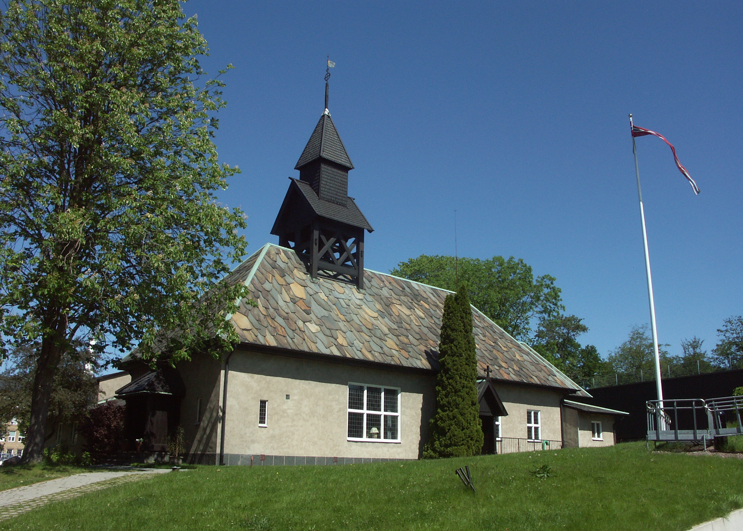 The Norwegian Sailor's Church, in Göteborg Sweden. The Norwegian pennant raised on the flagpole.